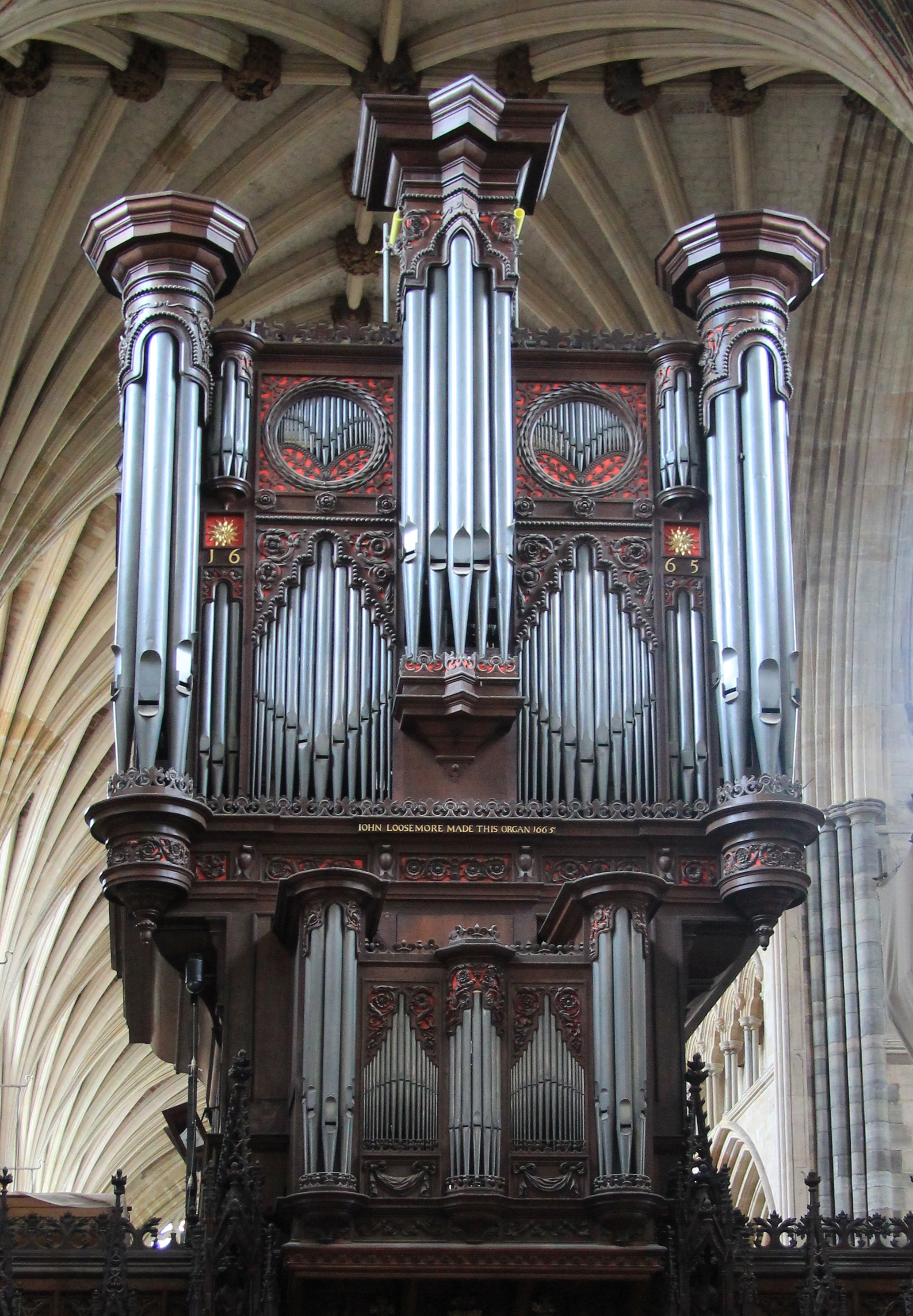 Interior of Exeter cathedral